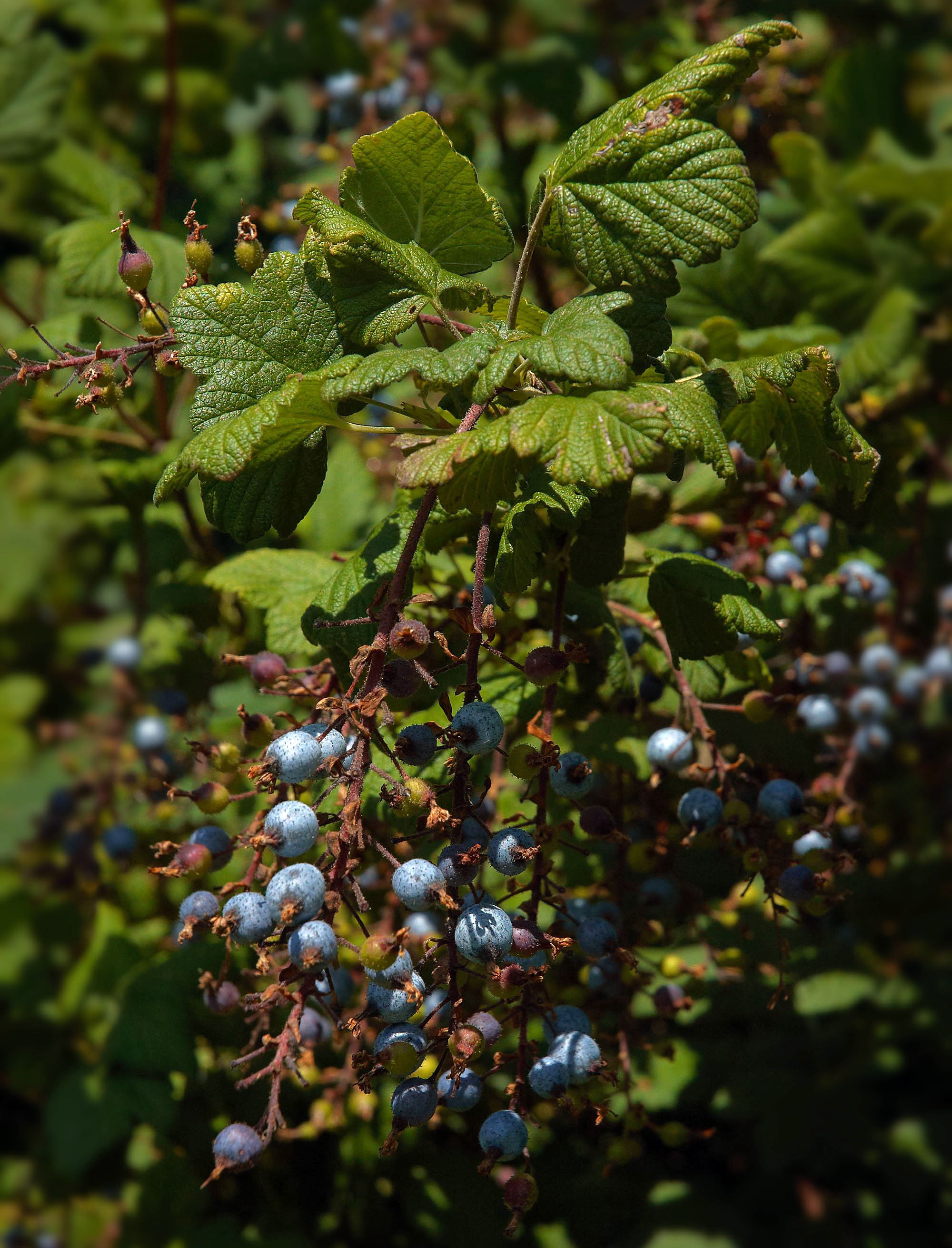 Ribes sanguineum 'King Ed. VIII' fruits